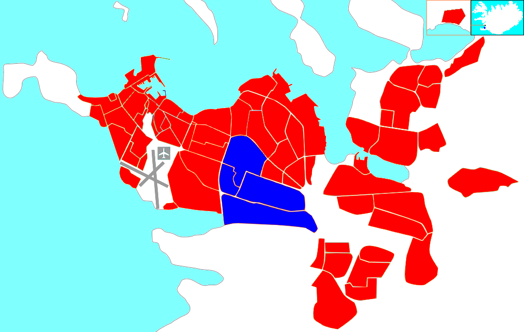 Locator map of the district Háaleiti og Bústaðir (blue) within the municipality of Reykjavik (red).